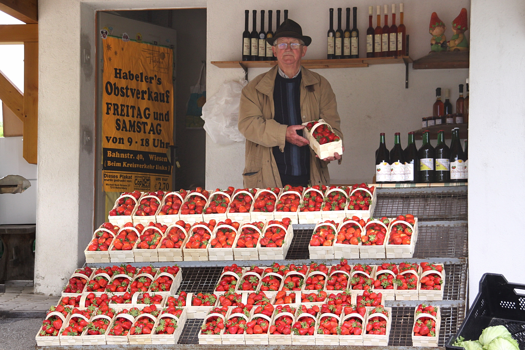 Wiesen (Austria) is known for her wonderful Fragarias